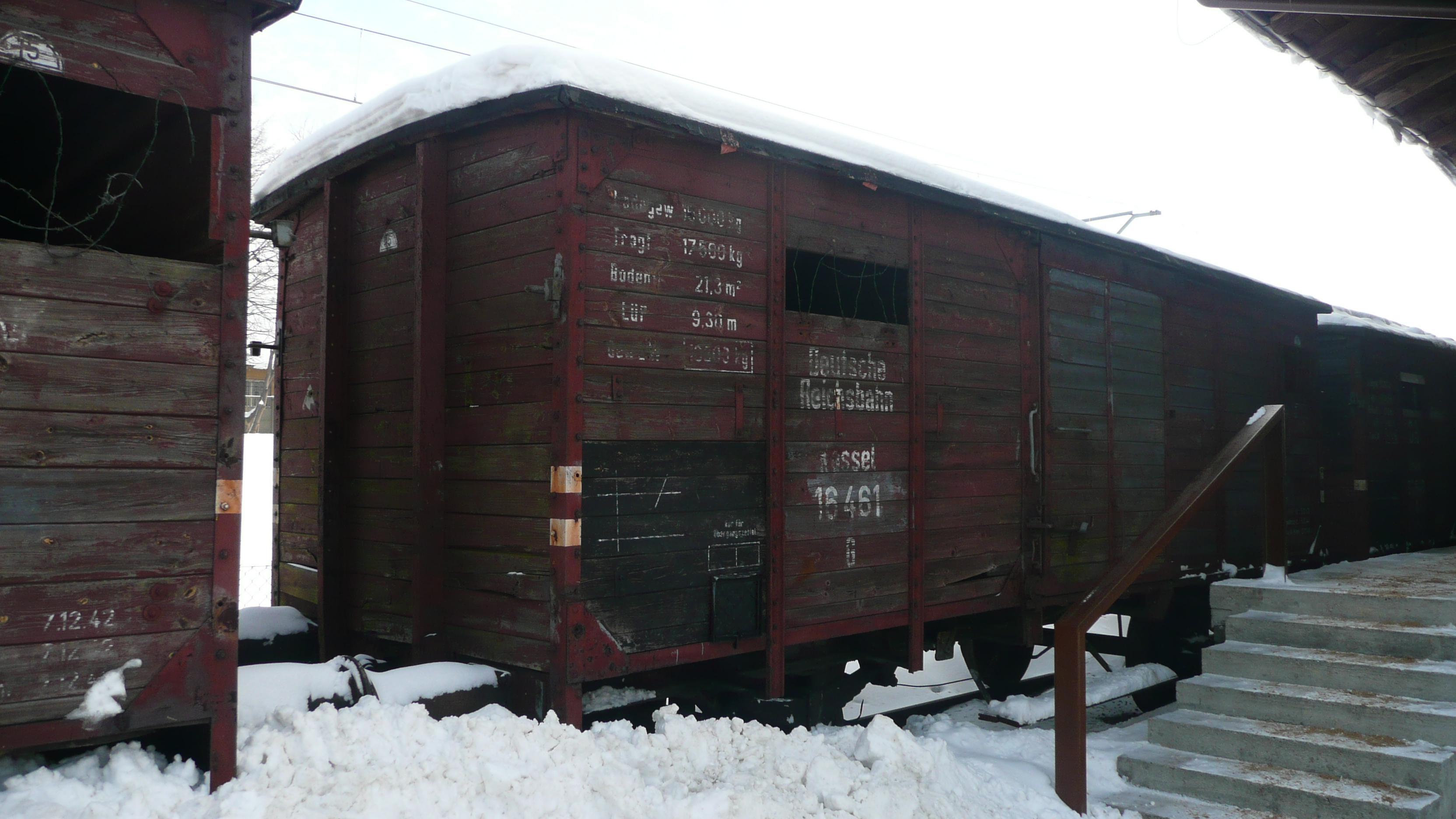 Łódź - Radegast Station